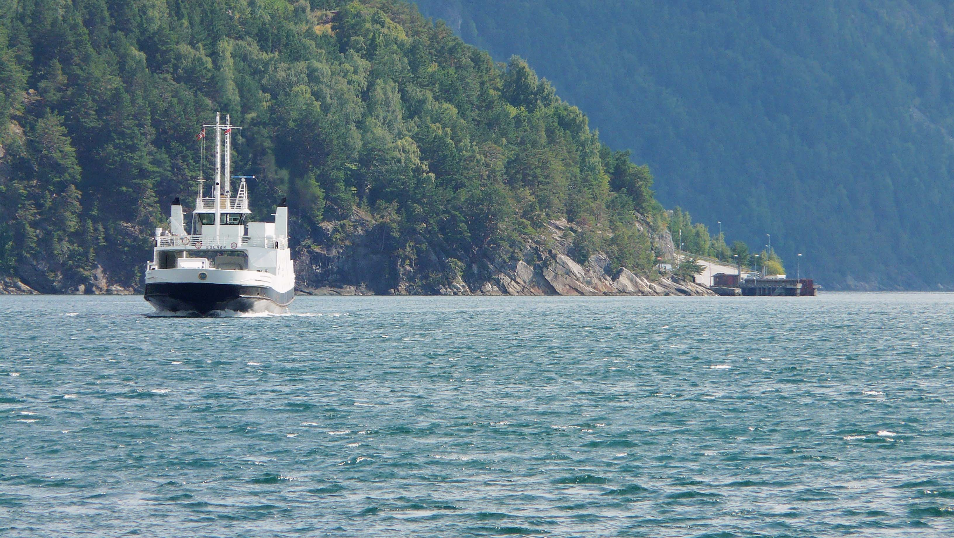 M/F Solnør ferry between Stranda and Liabygda as seen from a ferry dock in Stranda in 2008 August.